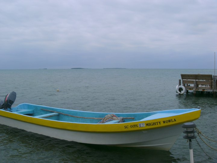 Picture of typical boat used to transport visitors to and from the Wee Wee Caye Marine Lab station, located in Belize. Limited view of surrounding waters, along with primary dock used on the island.